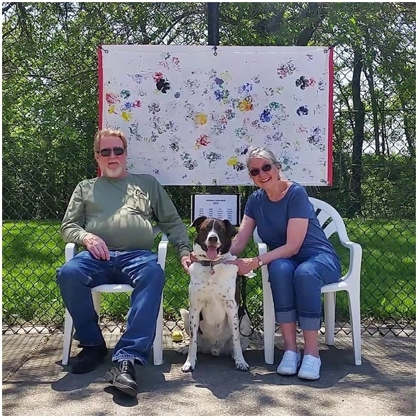 Jackson Bark's first community art piece titled 'Jackson Paw-lock", every different colored paw is a pup/artist who participated.